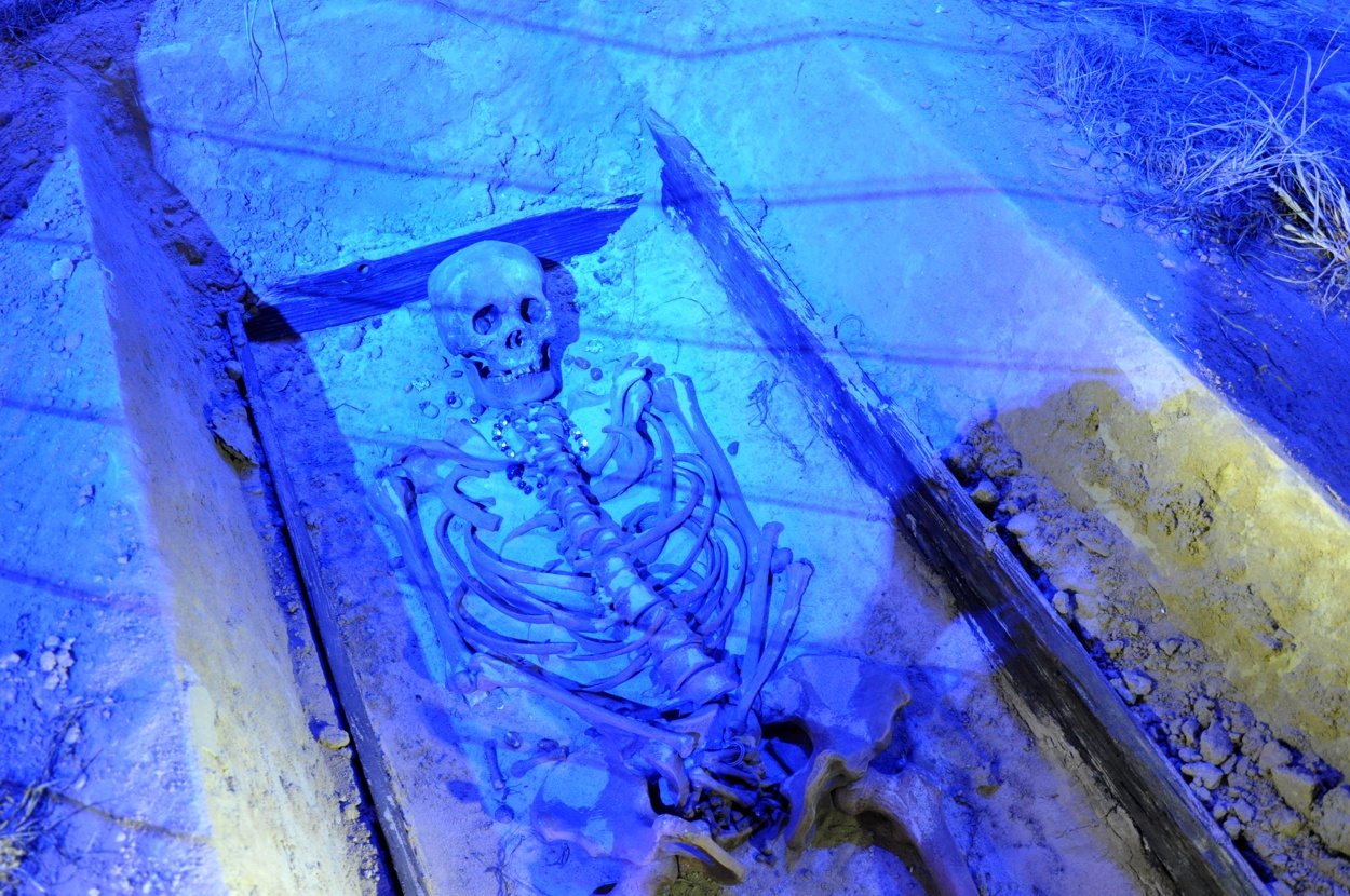 "Rynek Underground" - the subterranean museum in Kraków, Poland. Remnants of a 11th century cemetery uncovered in the years 2005-2010 during the archaeological excavations under the Main Square in Kraków.